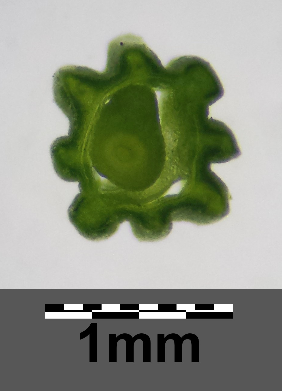 Octagonal silique (cross section) Taxonym: Conringia austriaca ss Fischer et al. EfÖLS 2008 ISBN 978-3-85474-187-9 Location: near Gumpoldskirchen, district Mödling, Lower Austria - ca. 300 m a.s.l. Habitat: xerotherme wood of Quercus pubescens